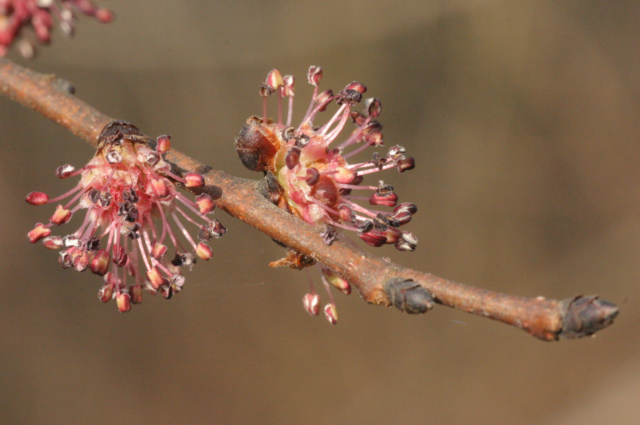 Ulmus minor